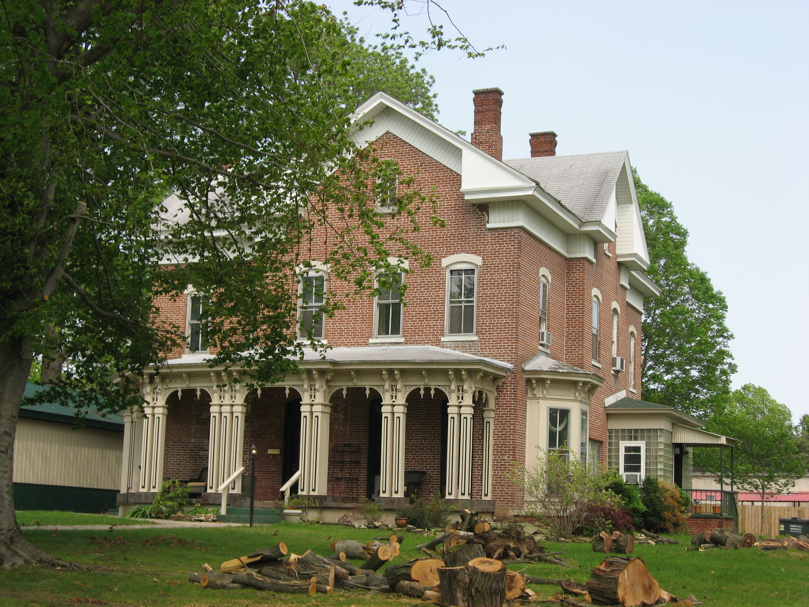 Front of the Welborn-Ross House, located at 542 S. Hart Street in Princeton, Indiana, United States. Built in 1875, it is listed on the National Register of Historic Places, and it is a part of the locally-designated South Princeton Historic District.